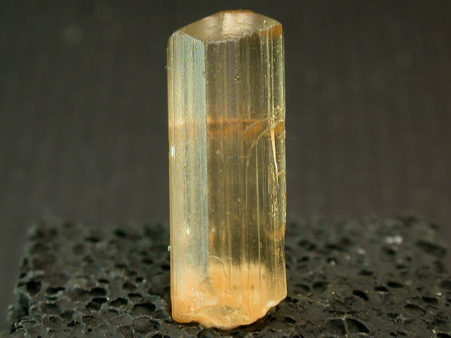 Marialite Locality: Marble occurrence, Morogoro, Uluguru Mts (Uruguru Mts), Morogoro Region, Tanzania Original description: A 2.3 cms tall crystal. JSS specimen and photograph.